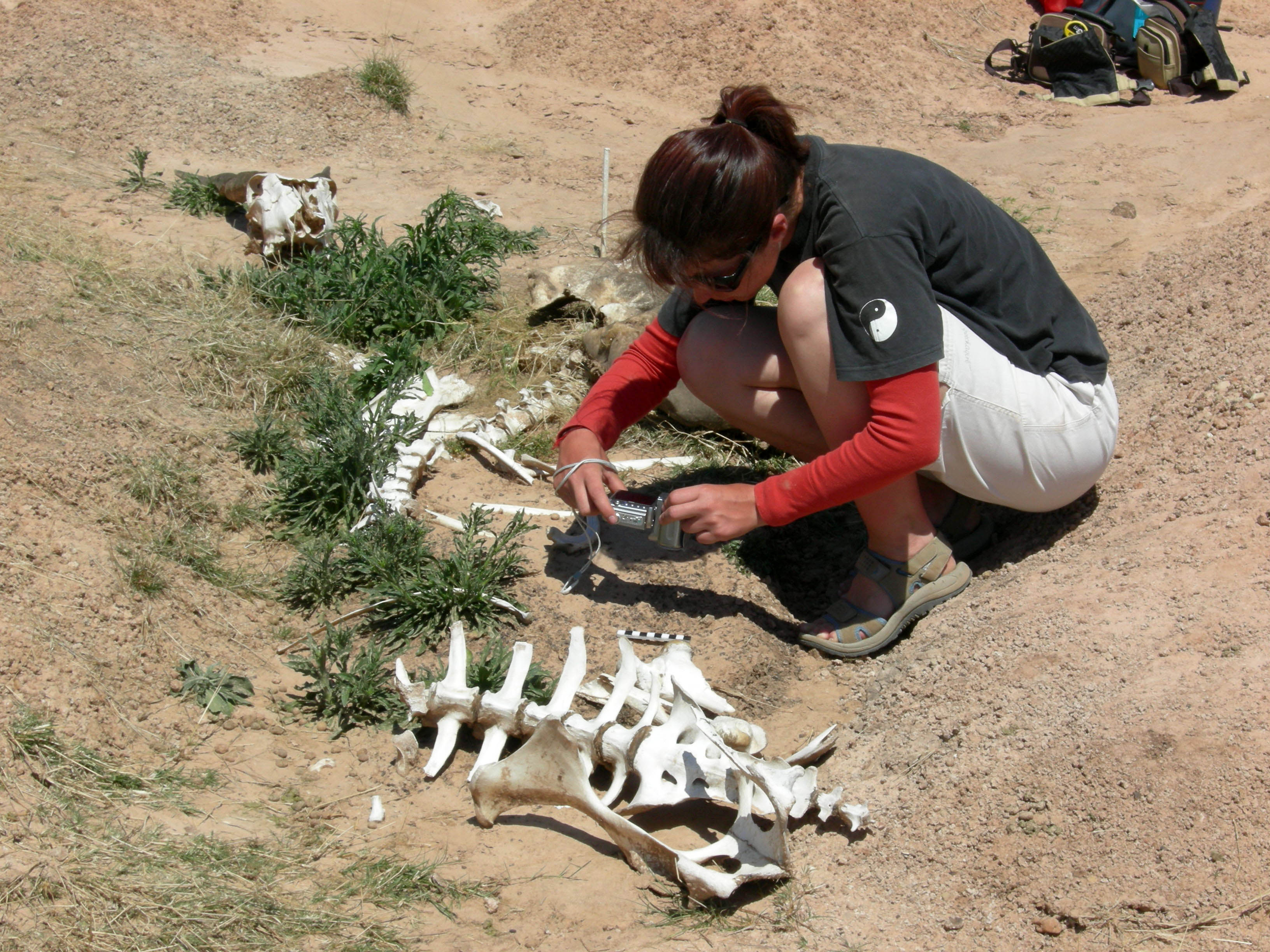 Taphonomy